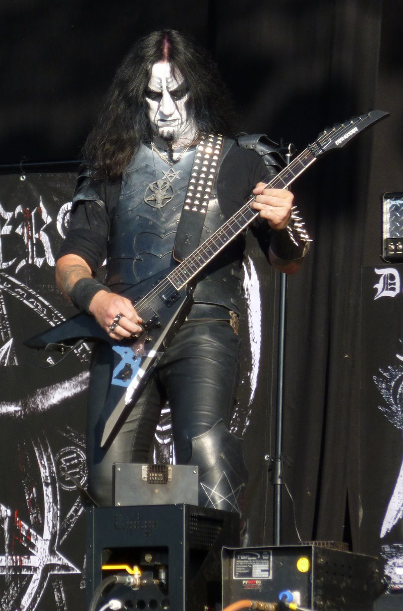 Chaq Mol, guitarrist of Dark Funeral, performing live at Wacken Open Air (2012).